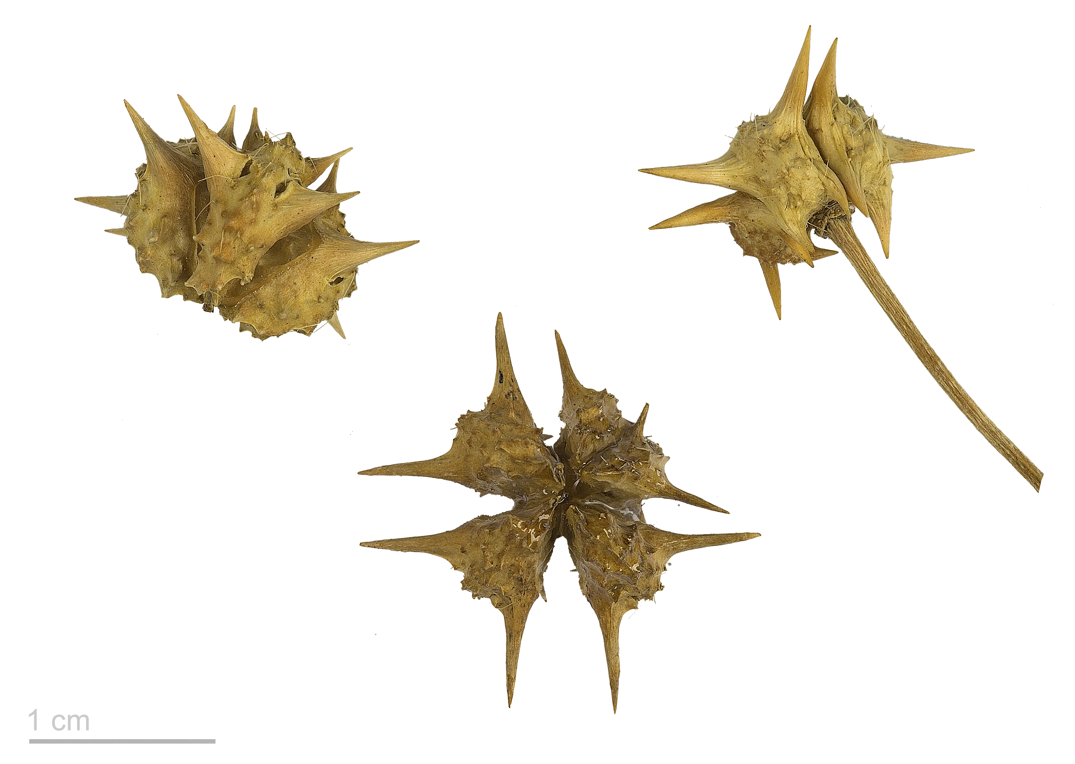 Tribulus cistoides, Jamaican feverplant, seeds